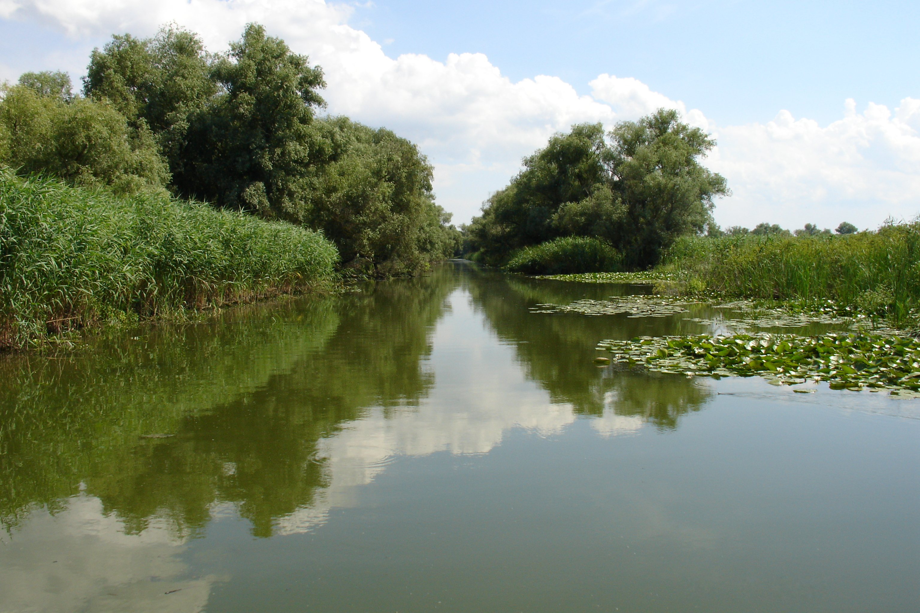 Danube delta